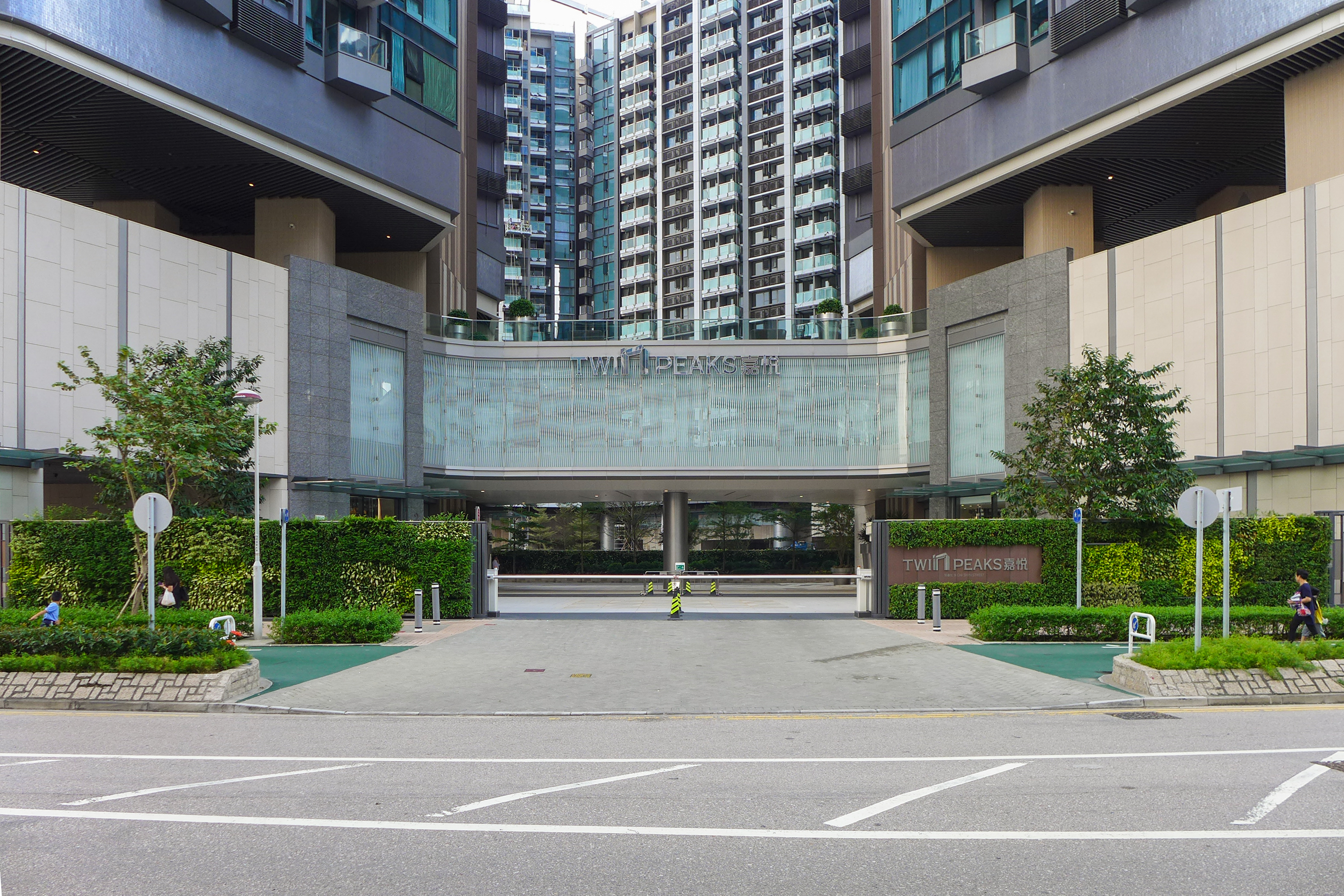 Twin Peaks Entrance view